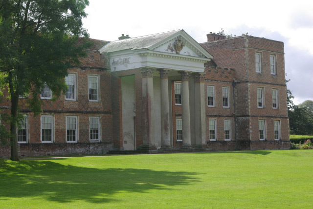 The Vyne